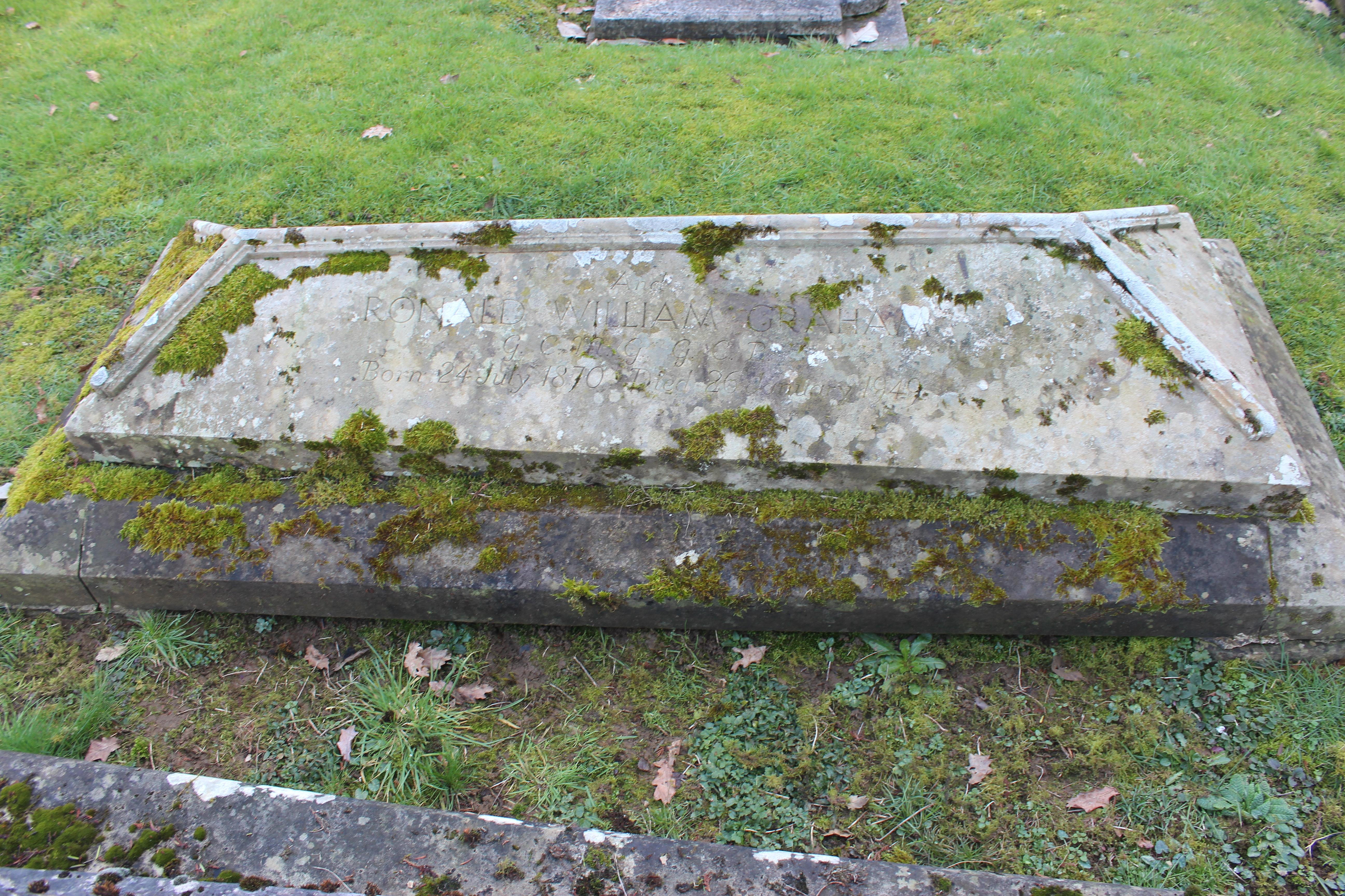 Grave of Ronald William Graham